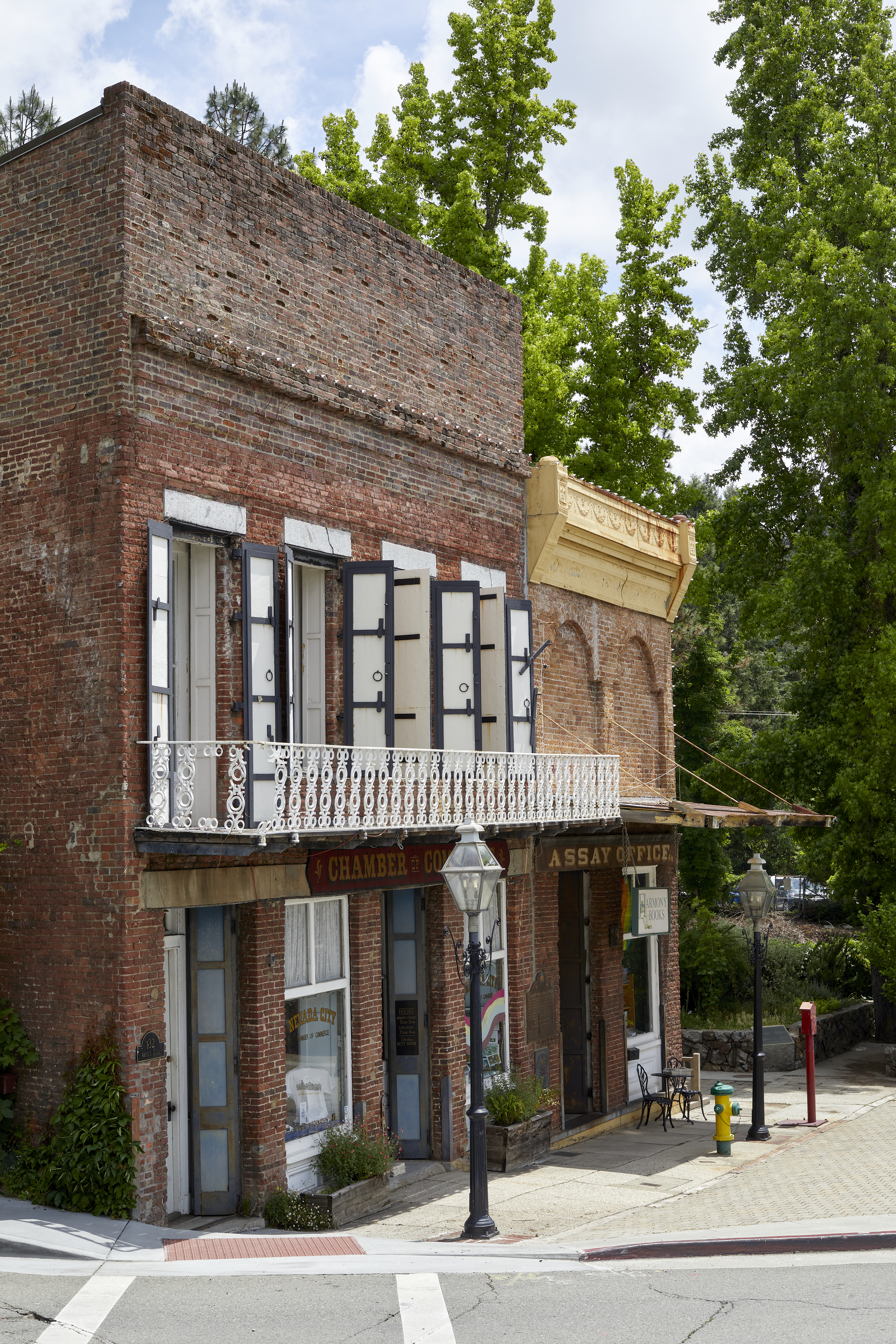 South Yuba Canal Office, at 134 Main Street in Nevada City, California, on May 31, 2020. Built in 1855, the South Yuba Canal Office once was the headquarters for the largest network of water flumes and ditches in California.